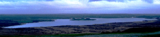 St Michael Reservoir viewed from Are Mountains (Brennilis, Finistere, Brittany, France)